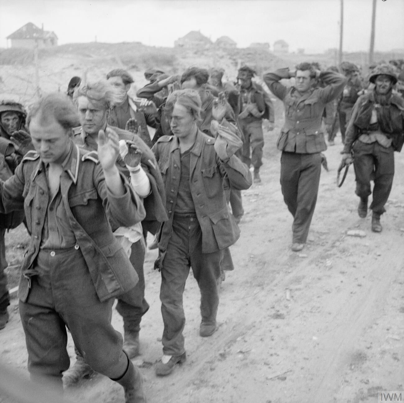 D-day - British Forces during the Invasion of Normandy 6 June 1944 German prisoners being marched along Queen beach, Sword area, 6 June 1944.